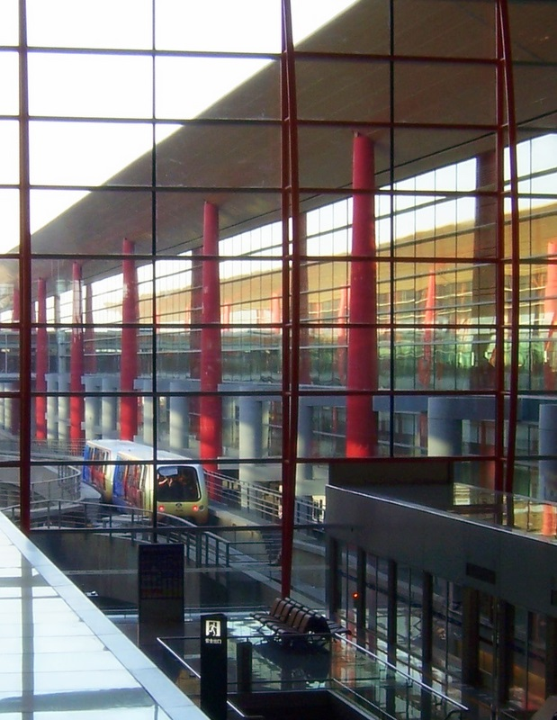 Inter-terminal train between T3C, D, and E.